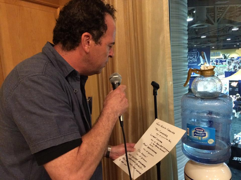 Loren Lester Microphone